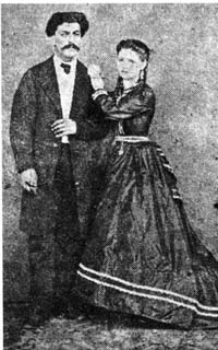 George Frederic Abbott (c.1776-1852)